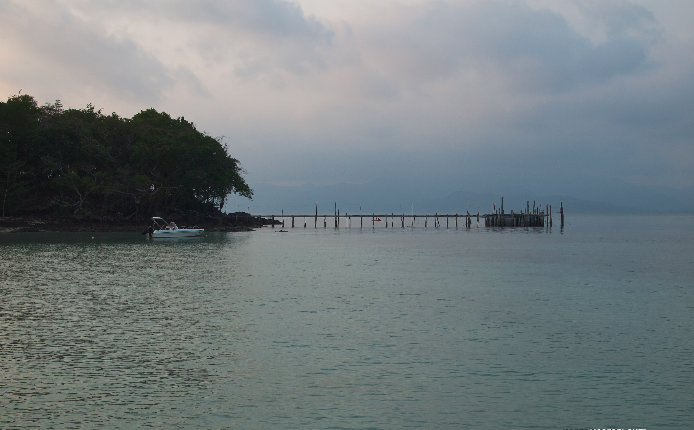 Southern dock of Ko Wai island, Thailand